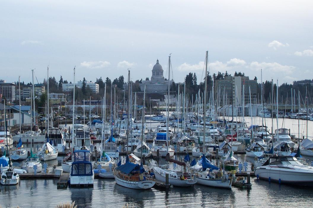 Olympia, Washington, USA State Capitol, Olympia, Washington, December 12, 2004.